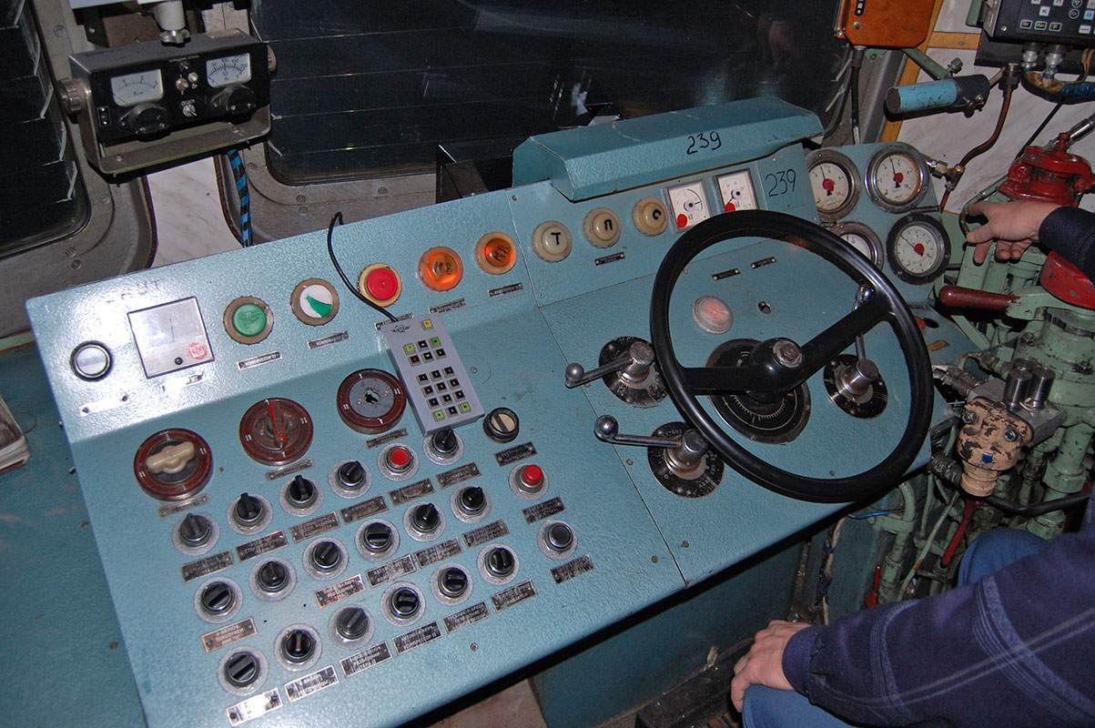 Cab of the electric locomotive Skoda 34E (ChS2)